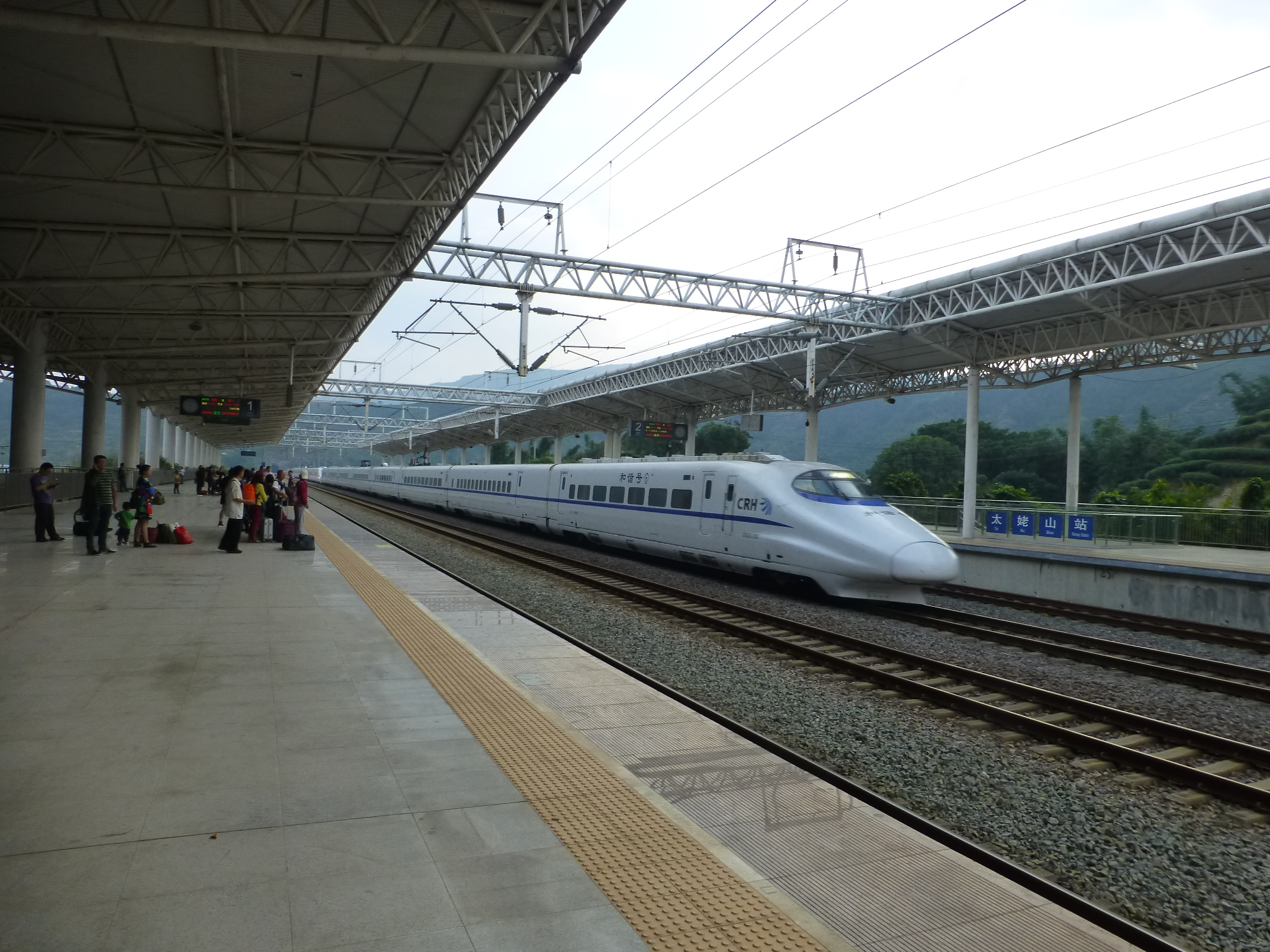 A train passes Taimushan Railway Station on one of the middle tracks 中文（中国大陆）: 太姥山站